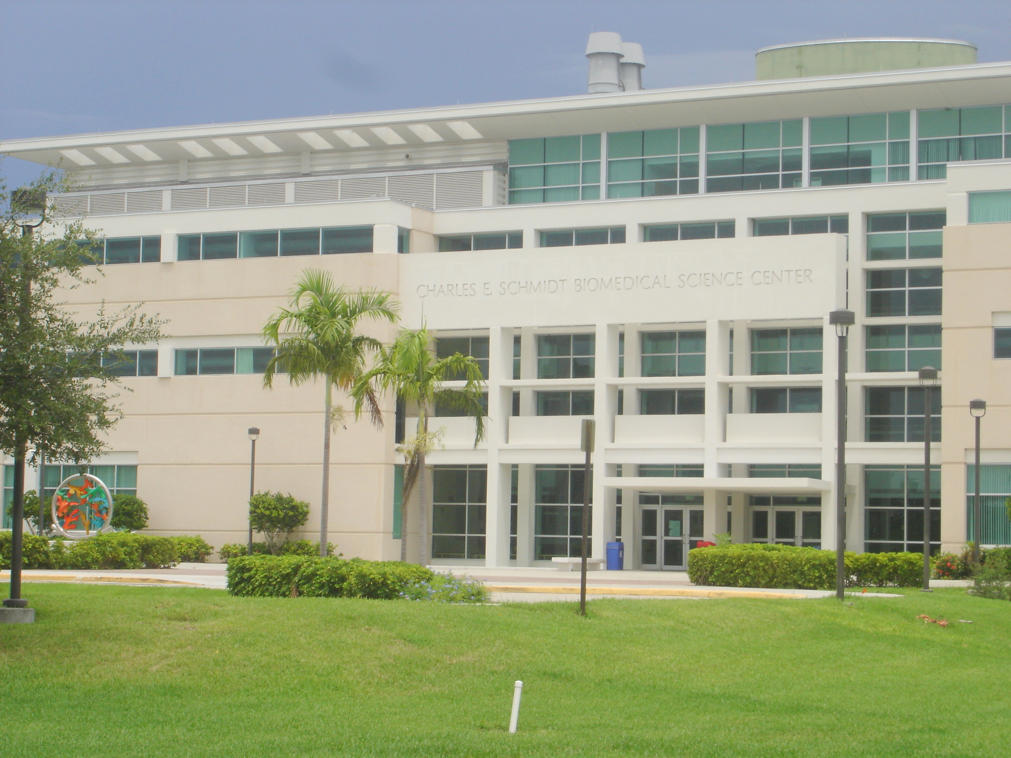 I took this picture on the Boca Raton campus of Florida Atlantic University on 8/20/06 between 12 and 1pm.